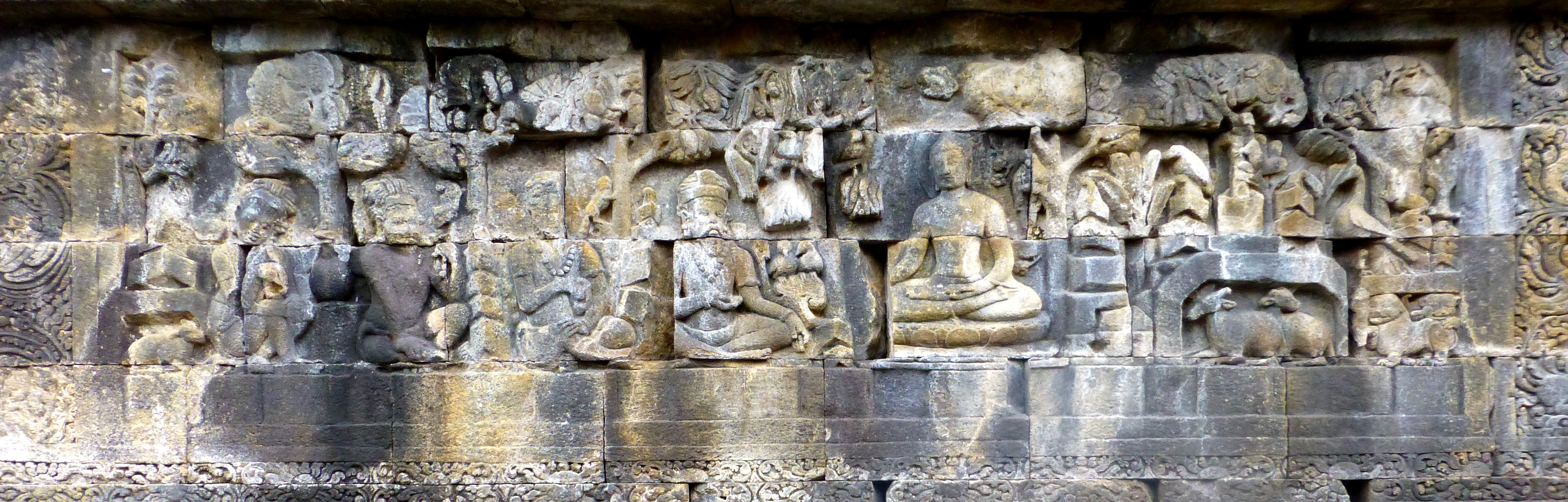 075 W, The Bodhisattva meets with Rudraka Ramaputra at Borobudur Photograph of a Lalitavistara relief at Borobudur in Java, Indonesia taken by Anandajoti.